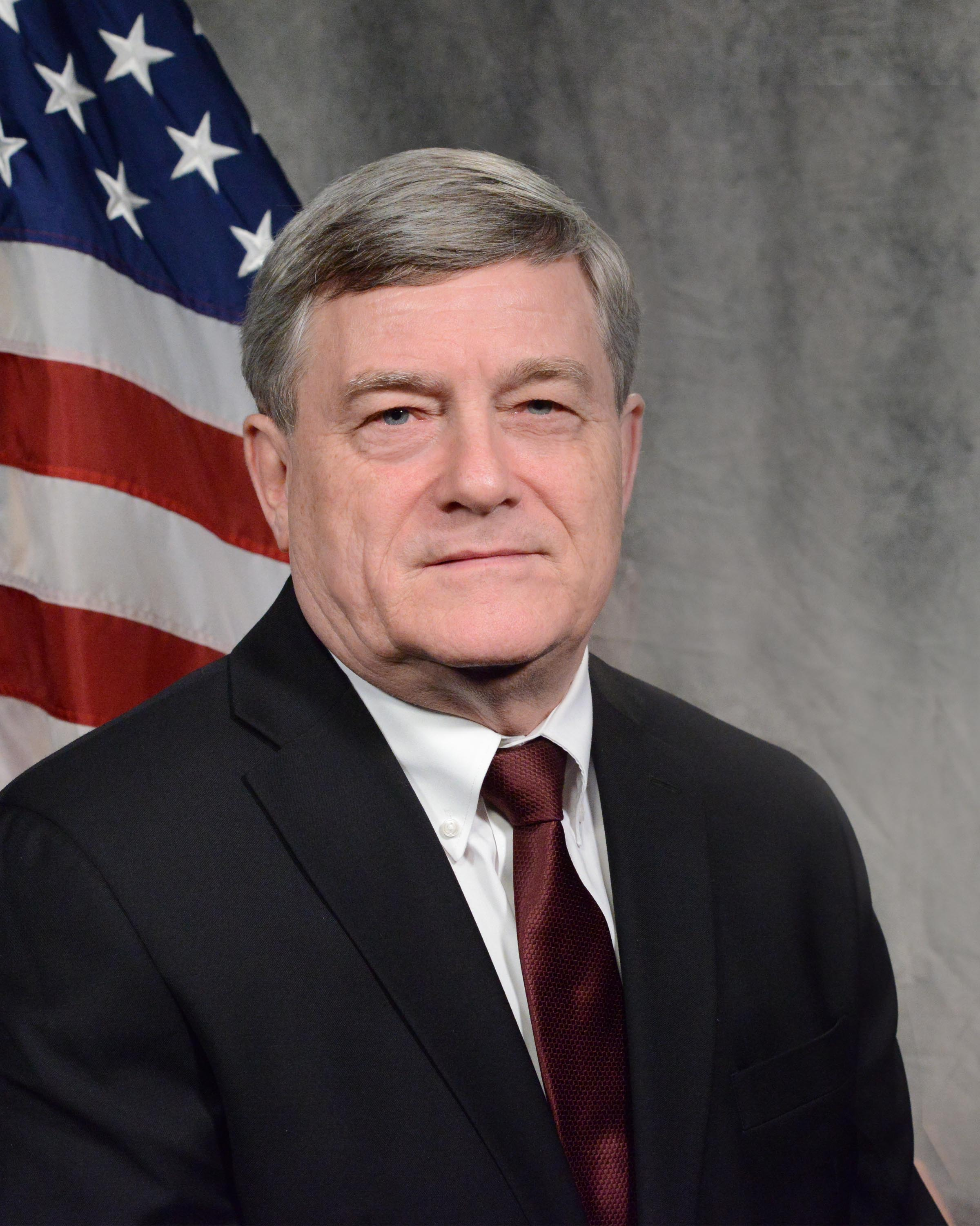 Steven Dillingham, director of the US Census Bureau (2019 to present)